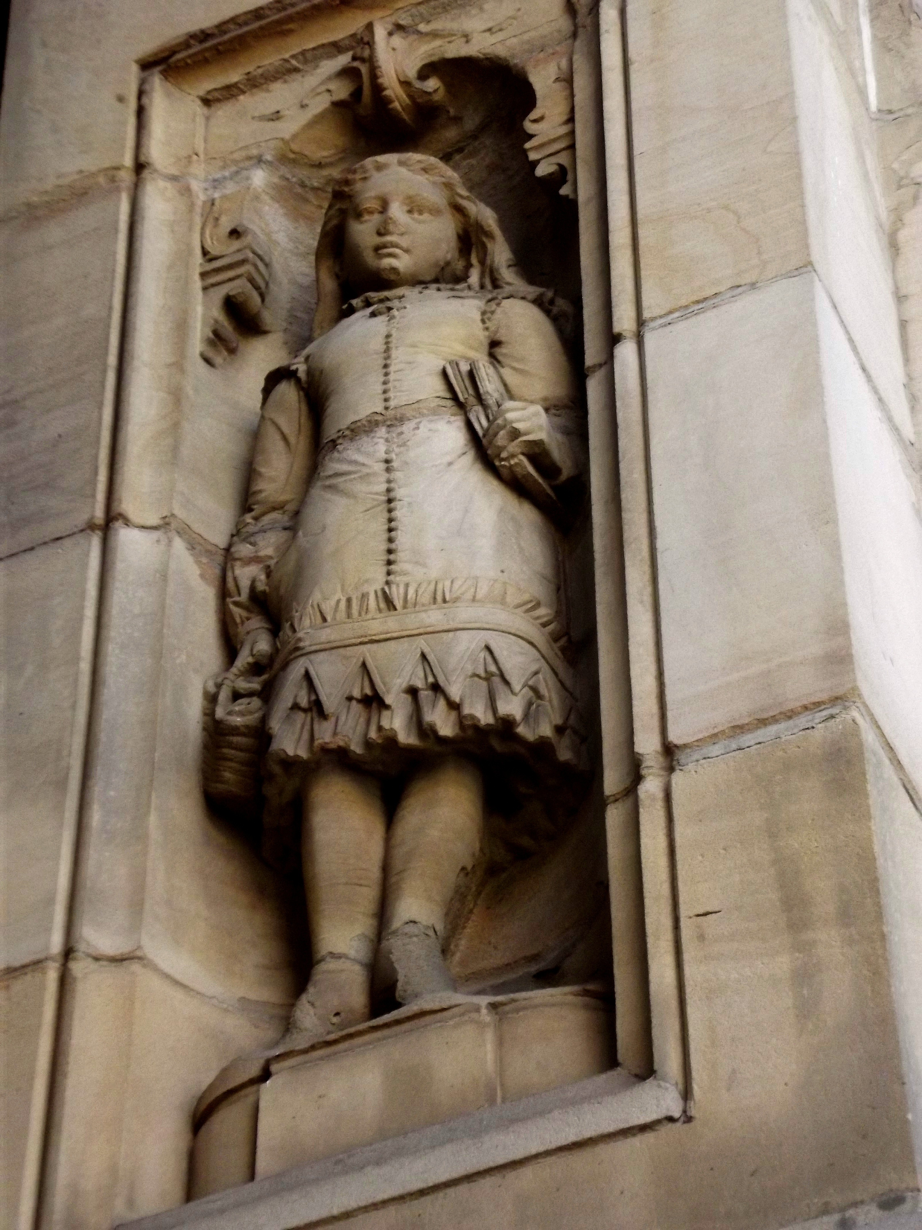 One of two statues of children, in the entrance archway of the former School Board Offices, Calverley Street, Leeds. This Grade II* listed building was designed by George Corson, and built 1878-84, although the date 1880 is carved on it, and it was opened for use in 1881. Matthew Taylor created the two sculptures of a schoolboy and schoolgirl in the entrance archway, and Benjamin Payler executed all the other stone carving. The statues were once known as "Frank and Molly," and the child models both lived in Woodhouse, Leeds. The boy, Francis Bertram Taylor (1868-1950) was the son of the sculptor. He became an artist-sculptor and served in WWI. The girl, Mary Isabel Ingleby (1868-1925), married a chemist who had a shop locally.